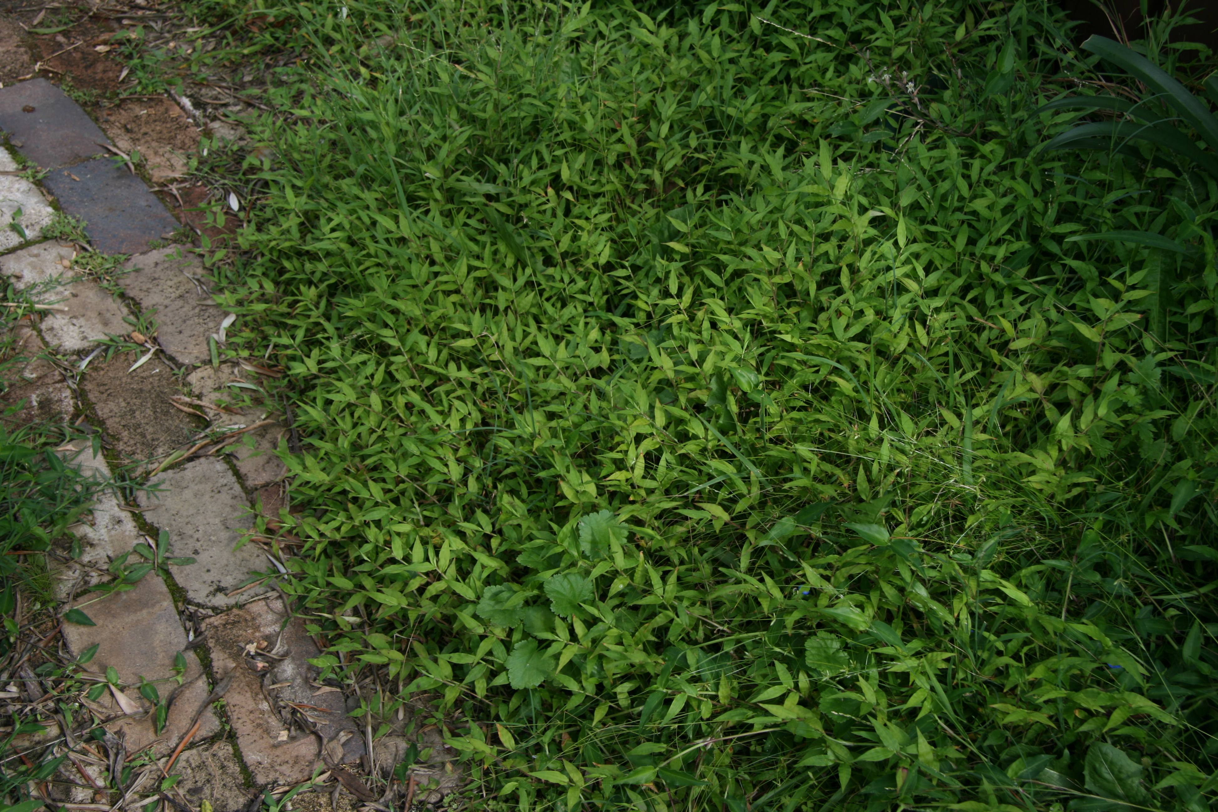 Oplismenus hirtellus next to garden path, Sydney. (Originally identified as Oplismenus aemulus but this taxonomy no longer recognized by the World Checklist of Selected Plant Families